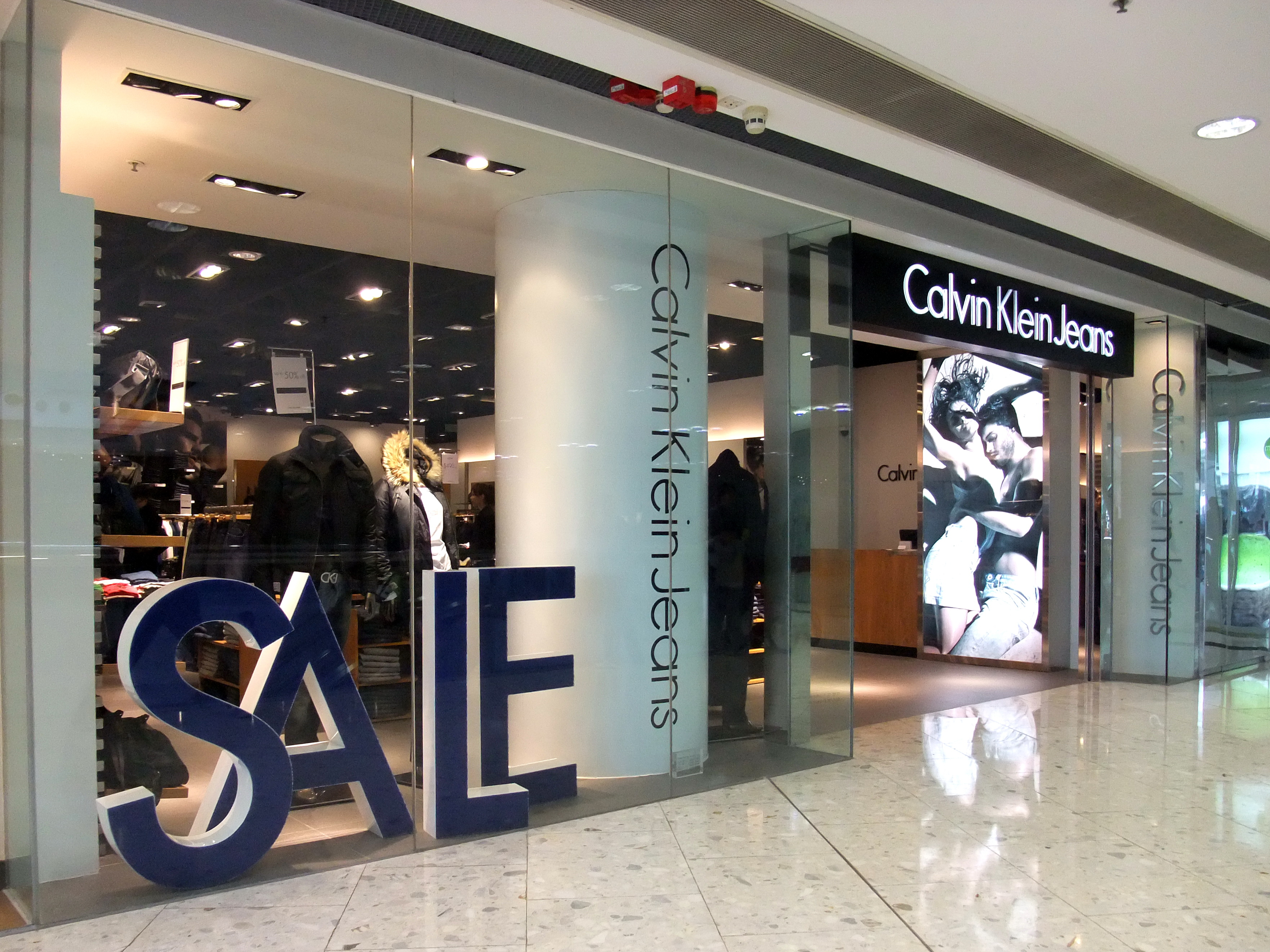 Calvin Klein Jeans at Citygate Outlets, Tung Chung, Hong Kong.